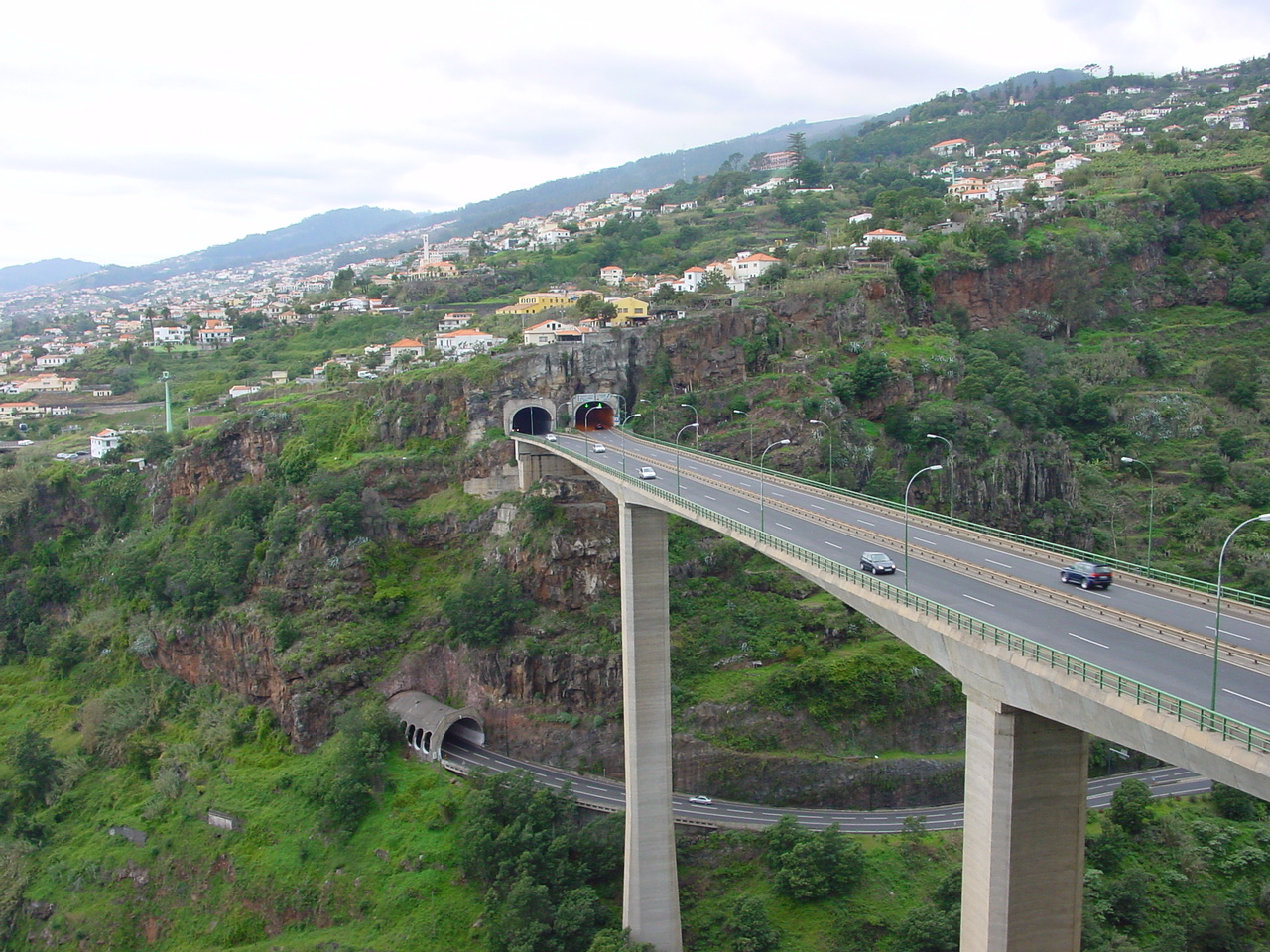 Motorway and tunnel north of Funchal (Madeira)